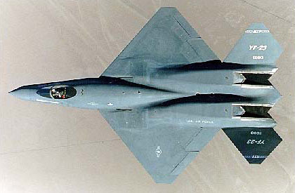 YF-23 prototype in flight